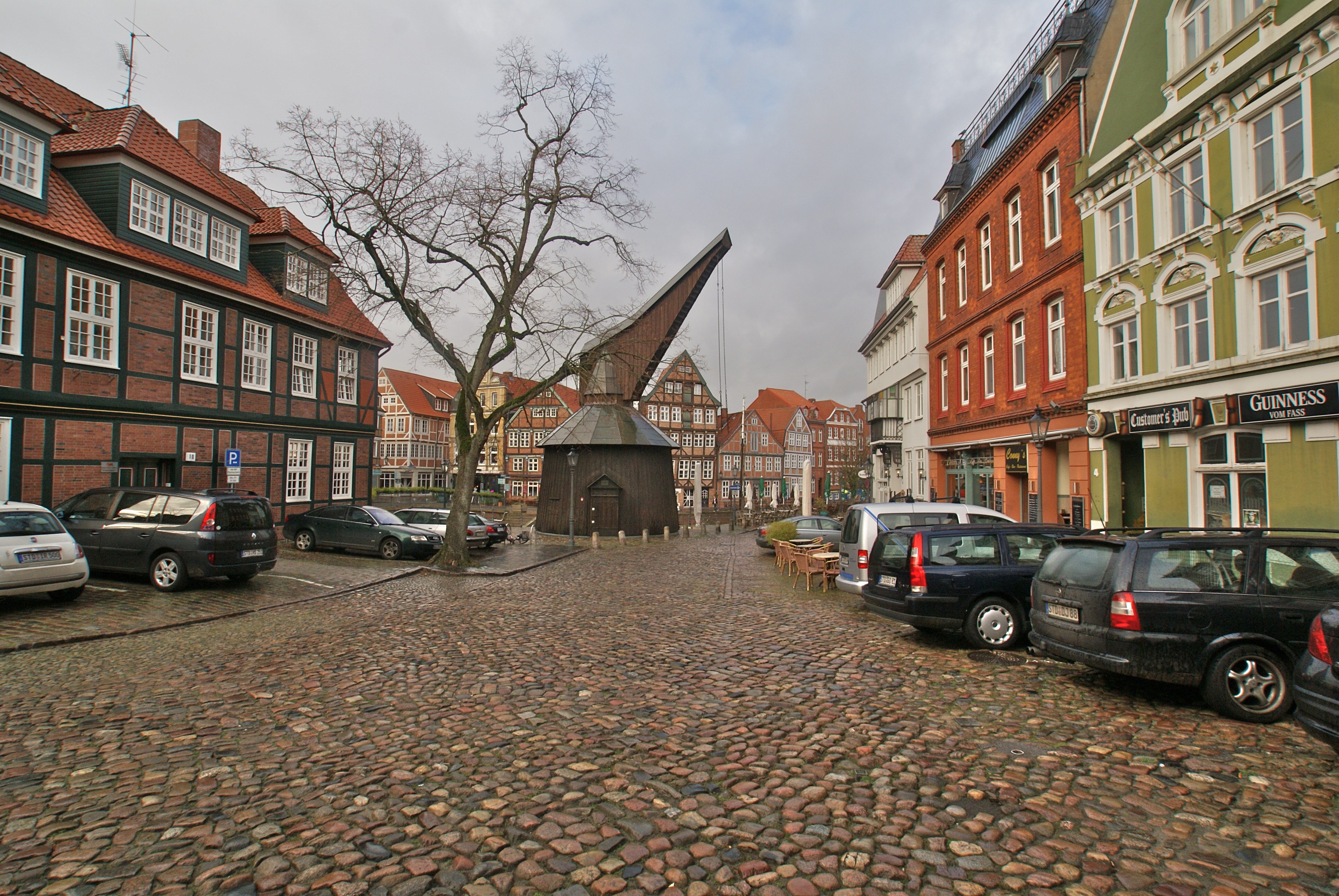 Stade, Germany: Old crane at the Schwinge port